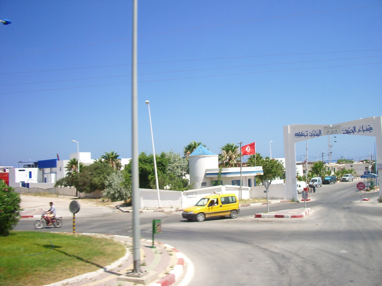 Gate of the sea port of Teboulba